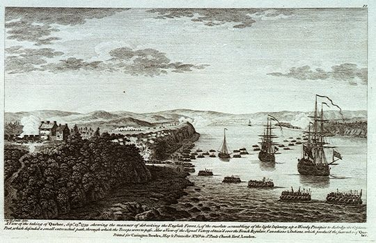 A View of the taking of Quebec, Septr 13th 1759. Shewing the Manner of debarking the English forces, & of the resolute scrambling of the light infantry, up a Woody precipice to dislodge the Captain's Post.